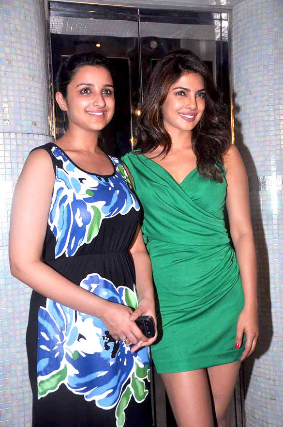 Priyanka parineeti ishqzaade party